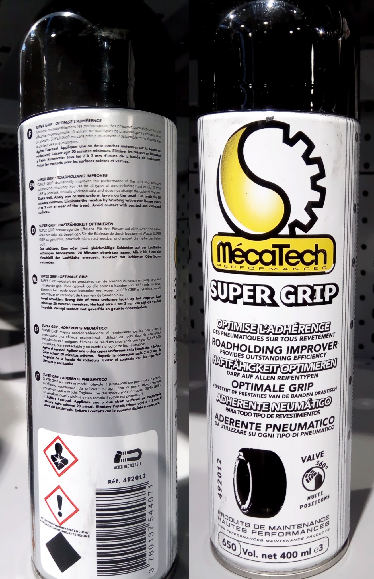 Spray can to improve tire grip, to the detriment of the mileage.